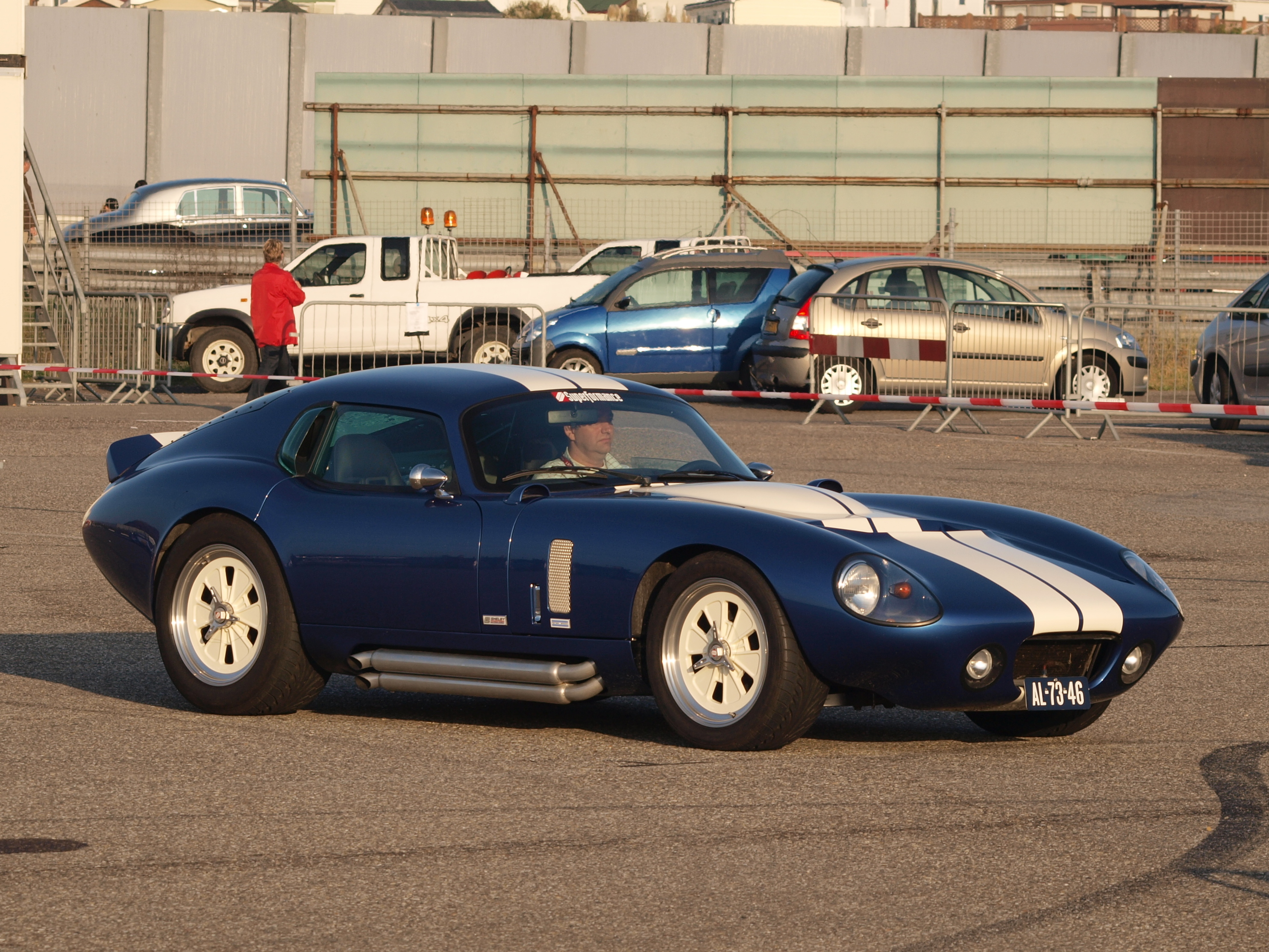 Photographed at the Nationaal Oldtimer Festival Zandvoort 2009, The Netherlands. OLYMPUS DIGITAL CAMERA